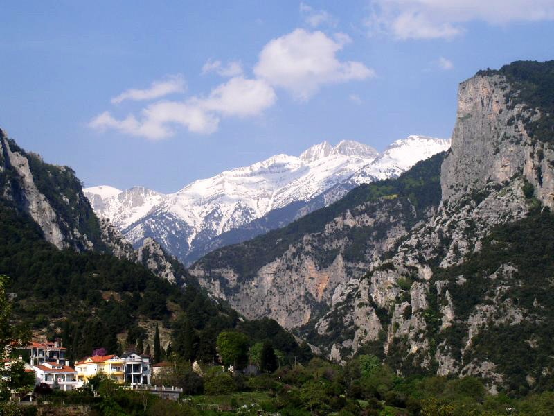 The mythical Mount Olympus in northern Greece. View from the town of Litochoro, in the roots of Olympus.